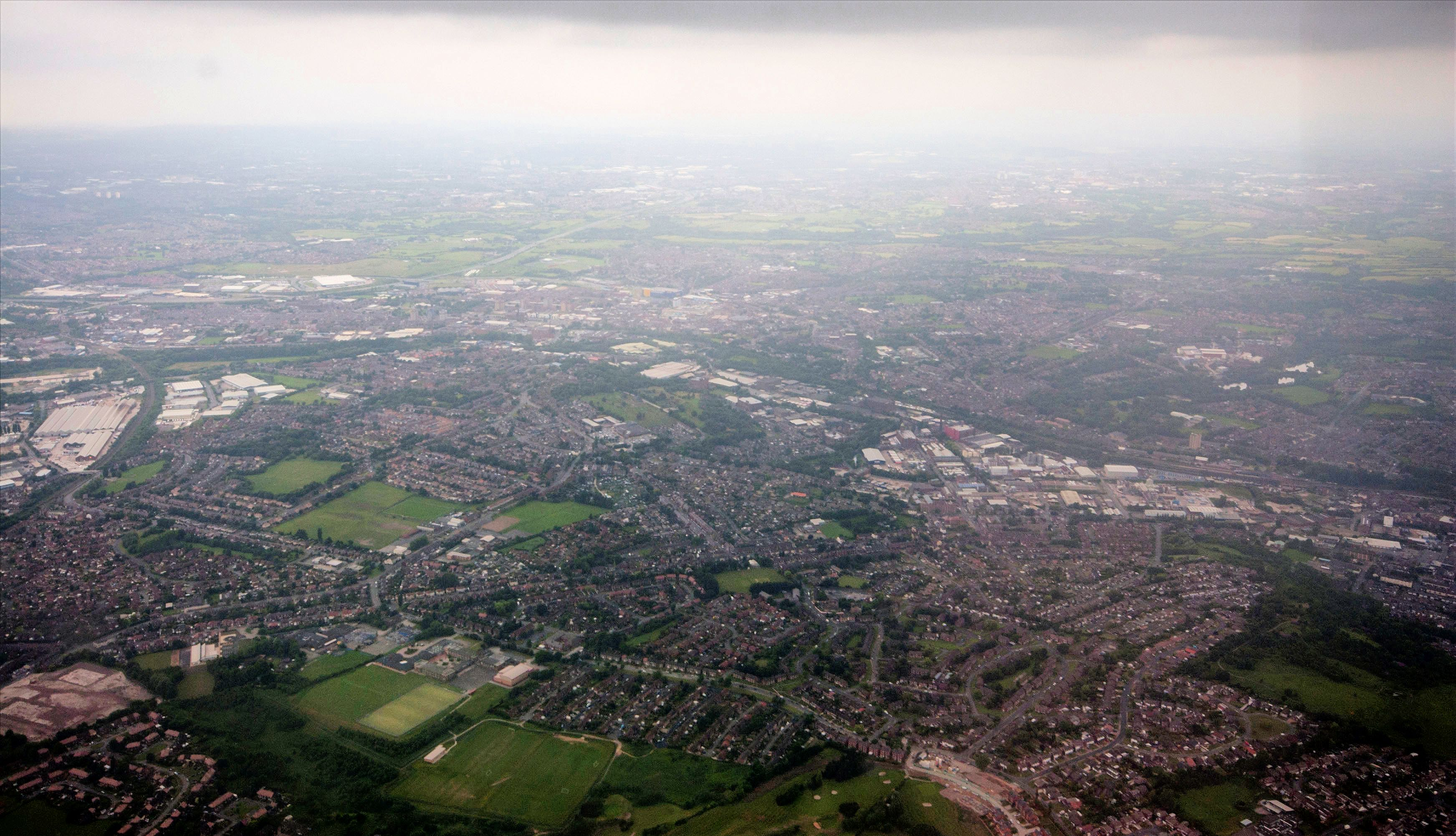 Ashton-under-Lyne viewed from the air, looking northwest.